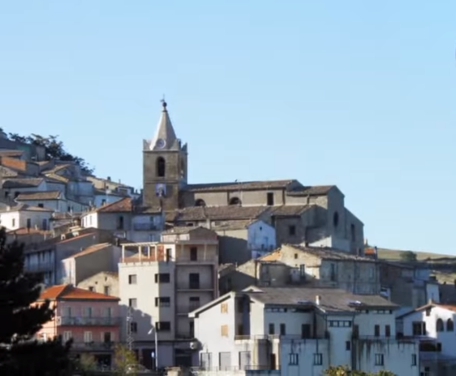 Castelmauro panorama